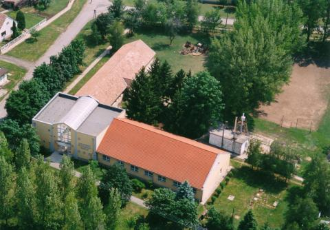 Dalmand, Hungary, aerial photography